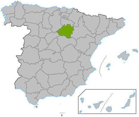 Location of the province of Soria, in Spain. Basado en: ProvPont.jpg Source: Designed by Satesclop. Original picture, designed by Sobreira.